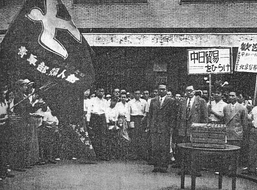 Oosu Incident